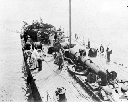 AWM caption : "Gallipoli, Turkey. April 1915. General Sir Ian Hamilton, Commander Allied Dardanelles Forces, on board the Royal Navy destroyer HMS Rattlesnake photographed from the hospital ship Gascon."